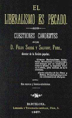 cover of 1887 edition of Liberalismo es pecado by Felix Sarda y Salvany